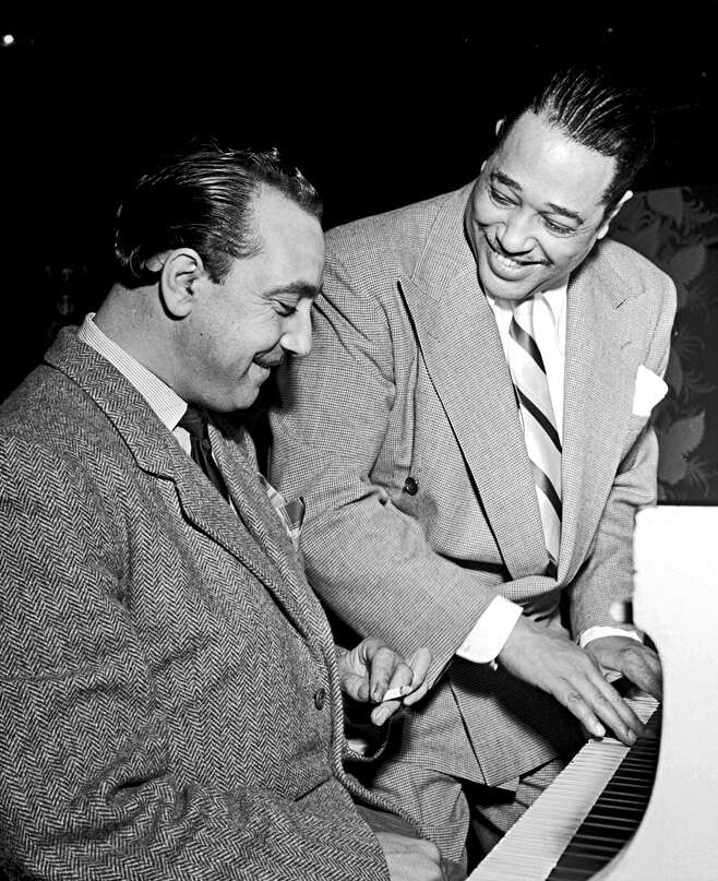 Portrait of Django Reinhardt and Duke Ellington, Aquarium, New York, N.Y., ca. Nov. 1946.